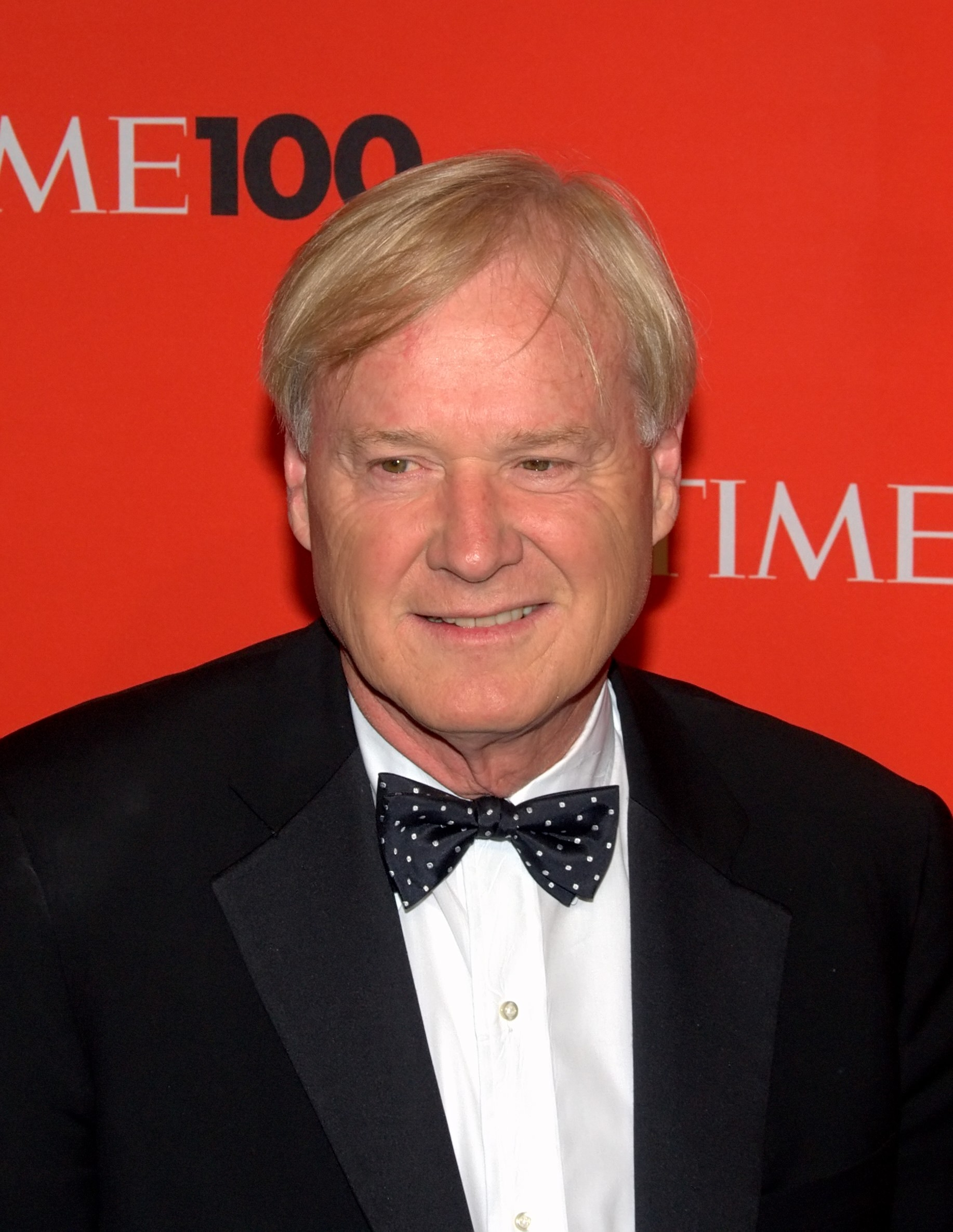 Chris Matthews at the 2010 Time 100.